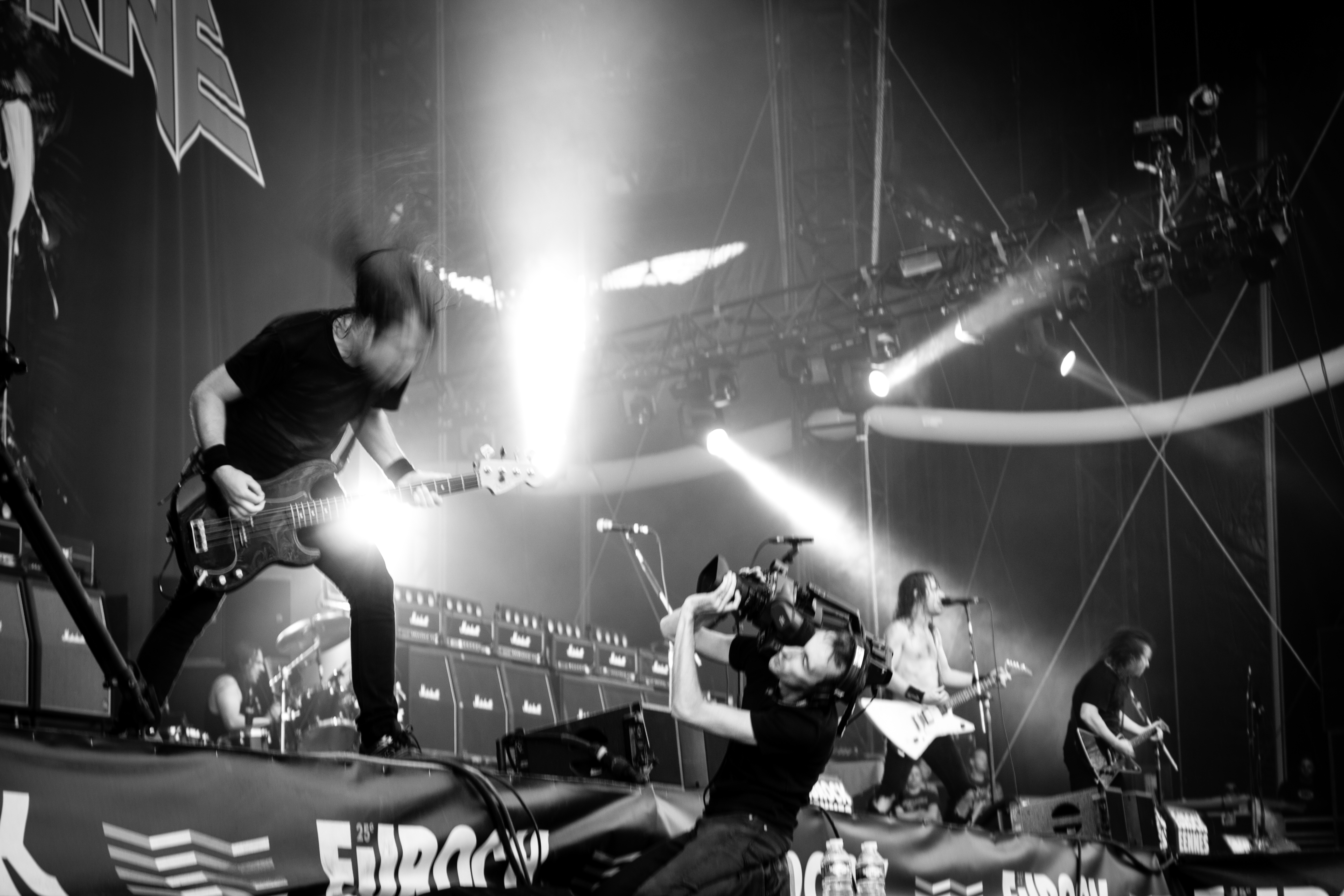 Follow me on facebook Twitter : @didyPhotography All the photographies I've made are now under CC0 (Creative Commons Zero) CC0 - learn more To the extent possible under law, Eddy BERTHIER has waived all copyright and related or neighboring rights to Airbourne @ Eurockéennes de Belfort 2013. This work is published from: France.